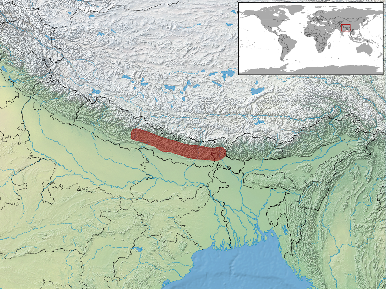 geographic distribution of Japalura tricarinata (Native: China; India; Nepal)